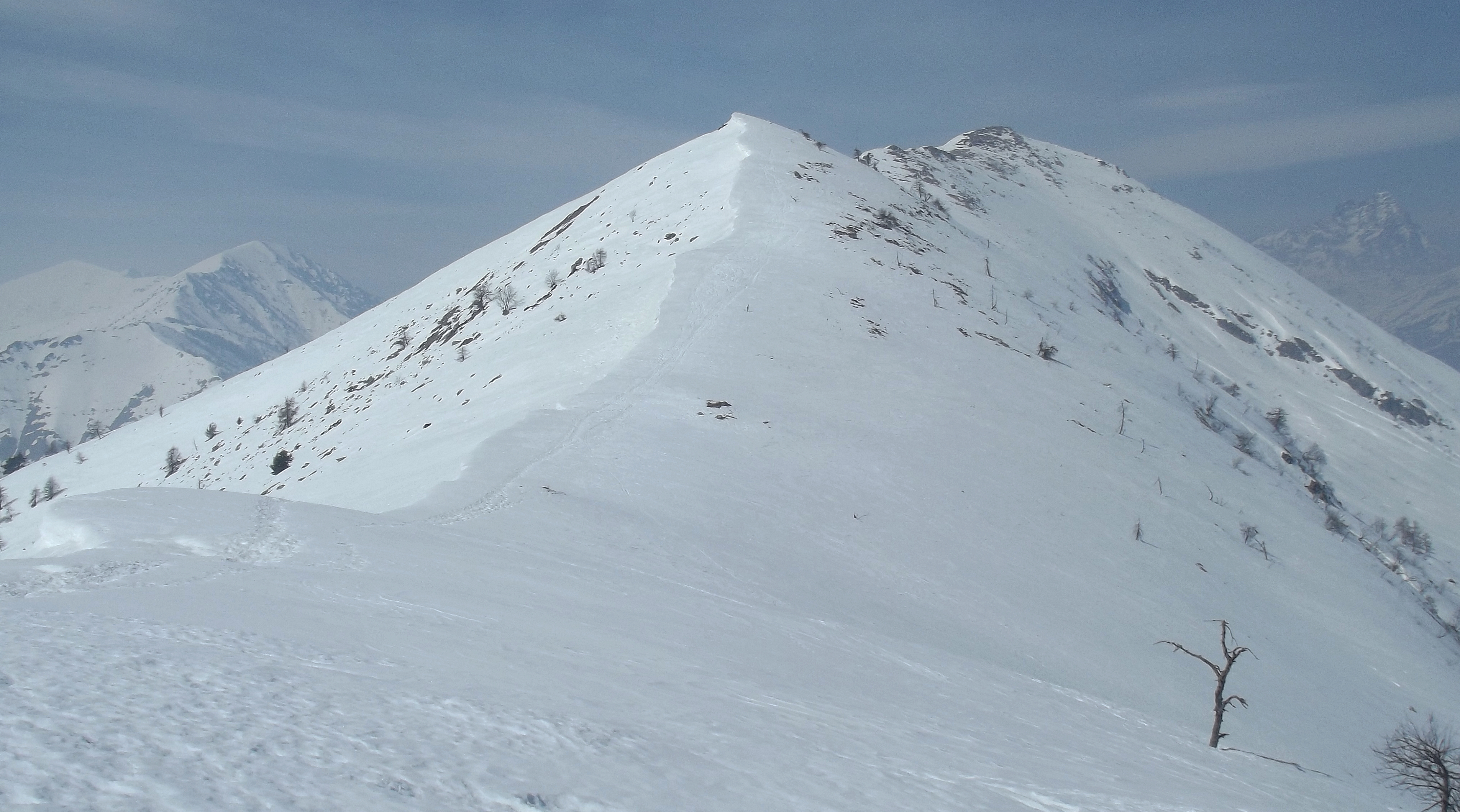 Monte Birrone (Cottian Alps, CN, Italy) - March 2015